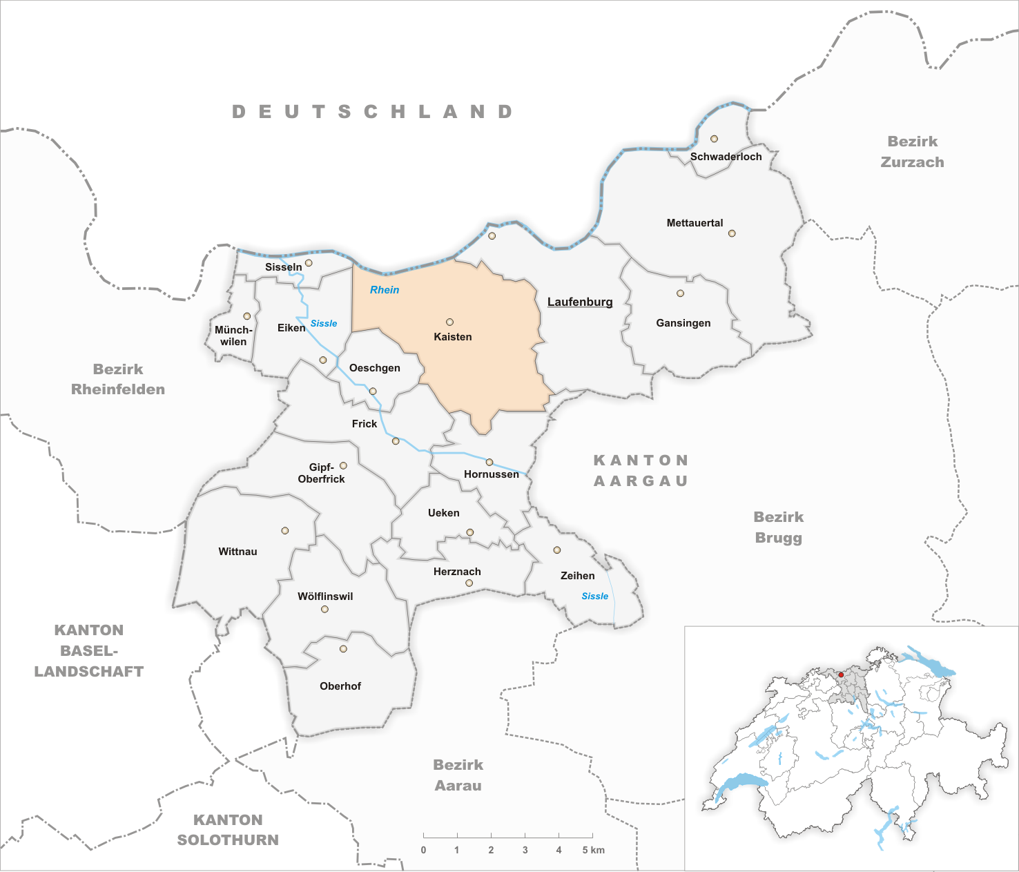 Municipality Kaisten